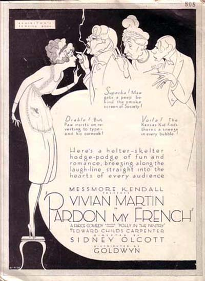 Press sheet of Pardon my French (1921), directed by Sidney Olcott.